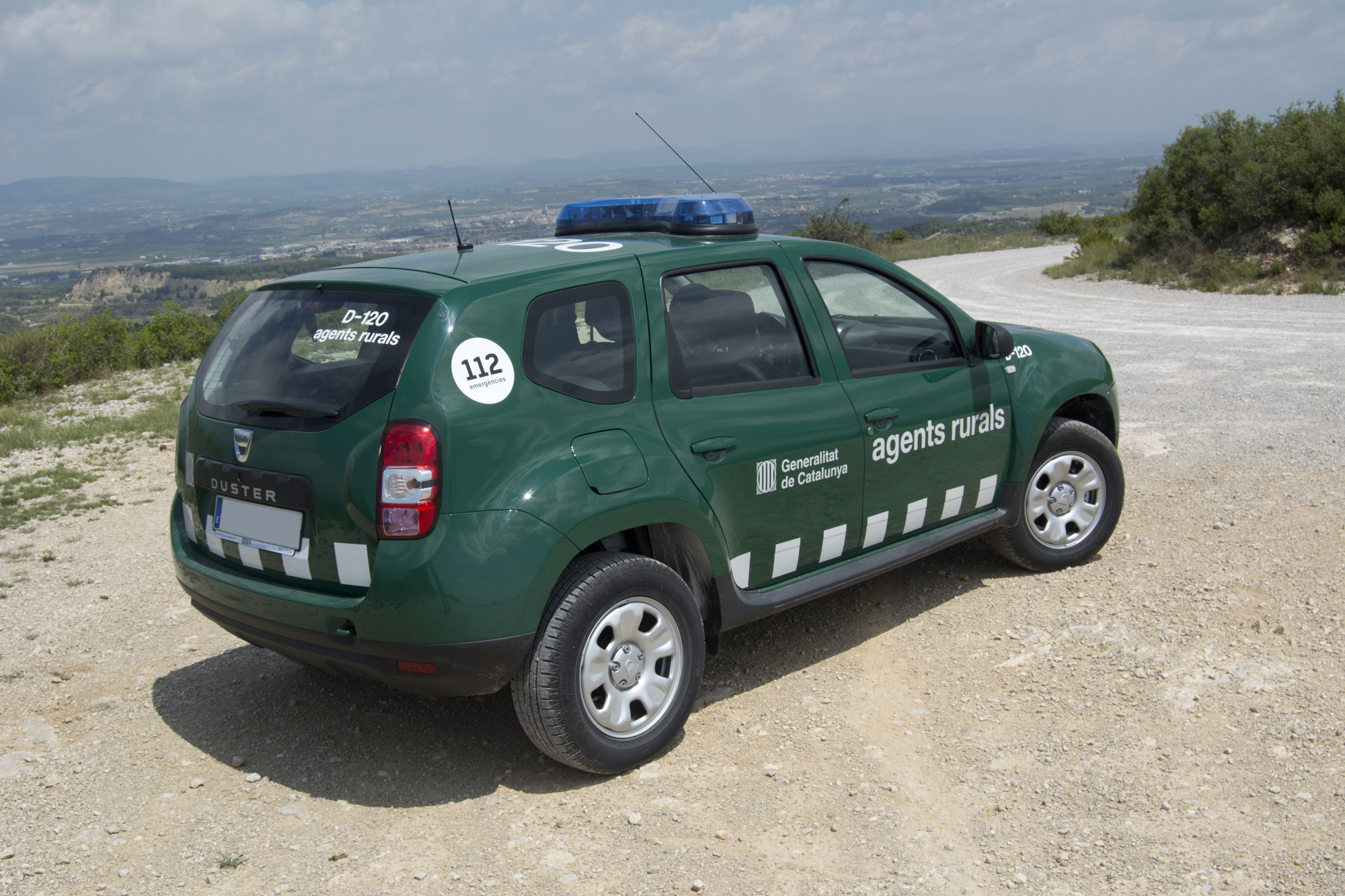 SUV Ranger Corps of the Government of Catalonia